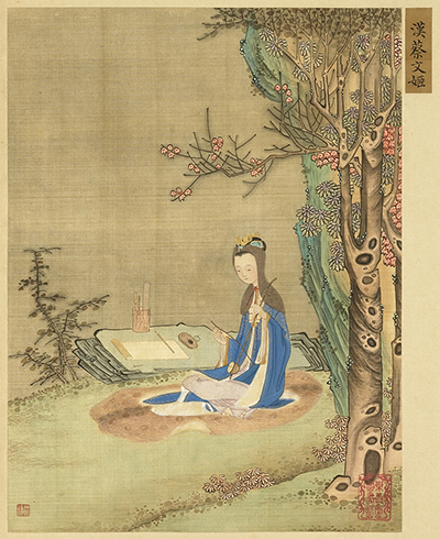 This painting depicts Cai Wenji (蔡文姬).